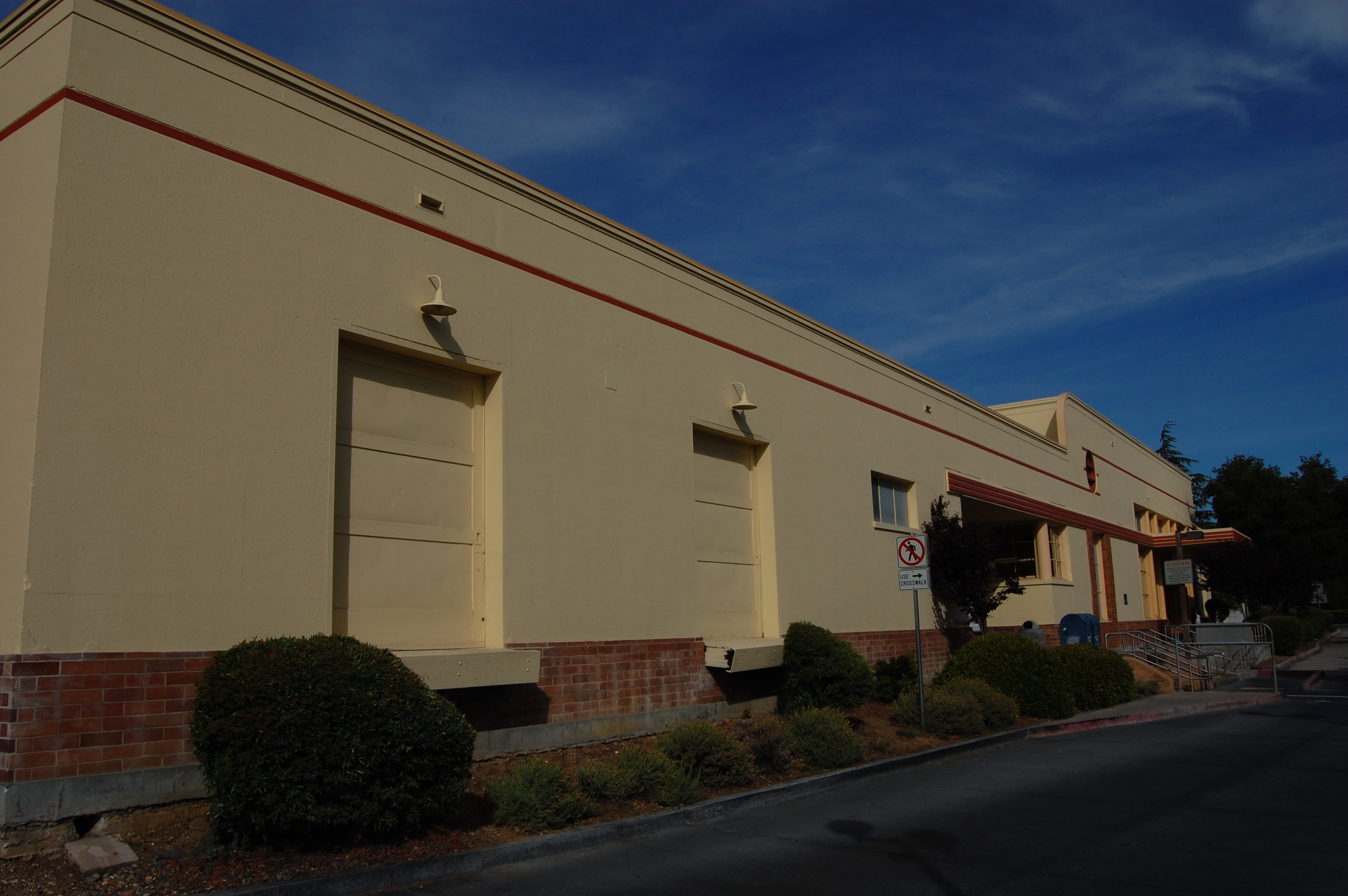 Southern Pacific Railroad depot. 95 University Avenue. Palo Alto, California, USA